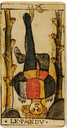 An original card from the tarot deck of Jean Dodal of Lyon, a classic Tarot of Marseilles deck which dates from 1701-1715.